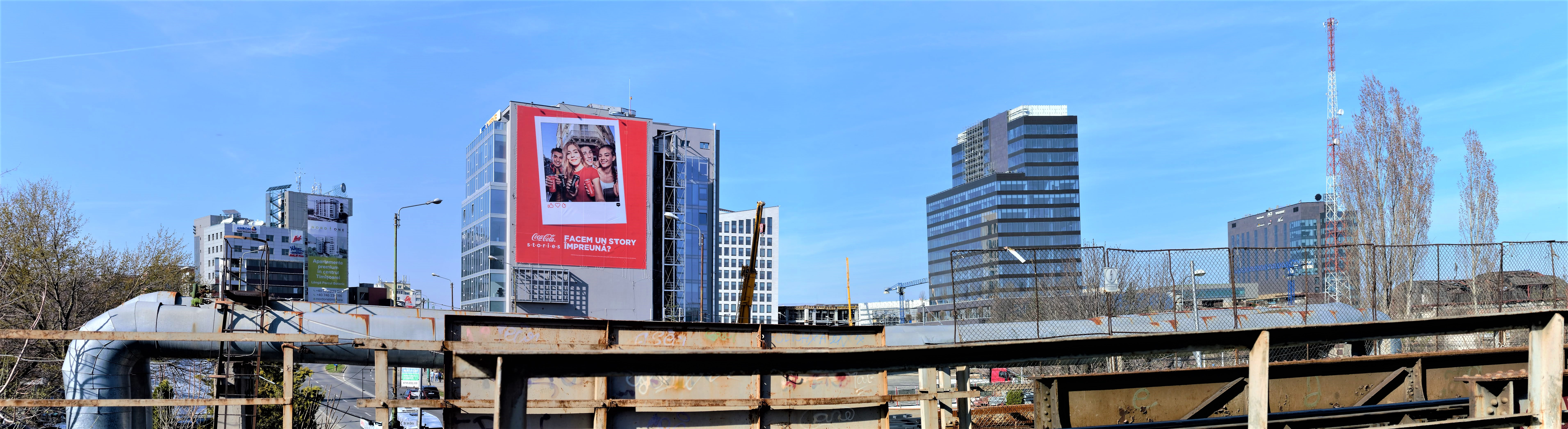 Timișoara Skyline from Piața Consilului Europei